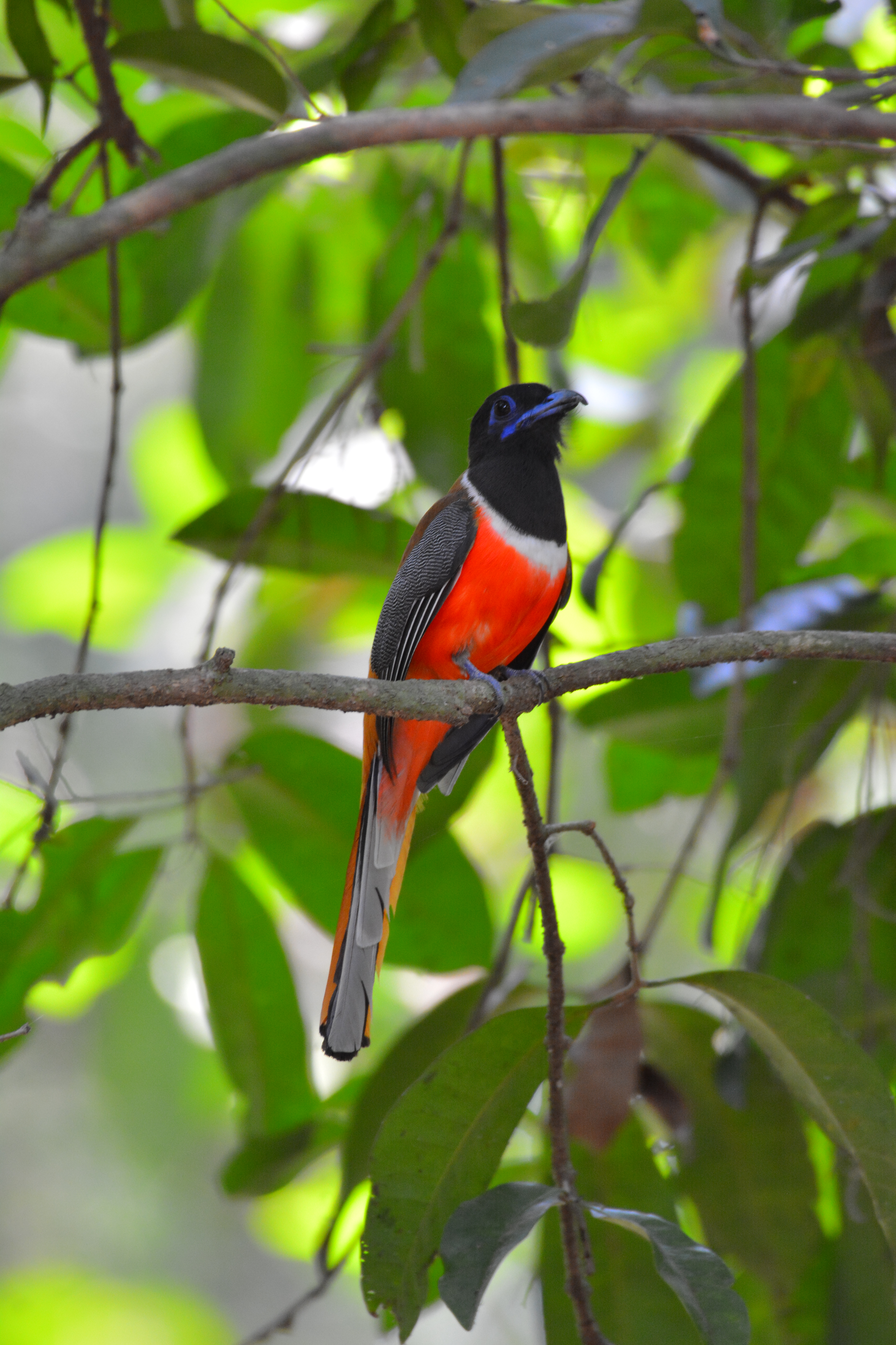 Malabar trogon is a species in Trogon family